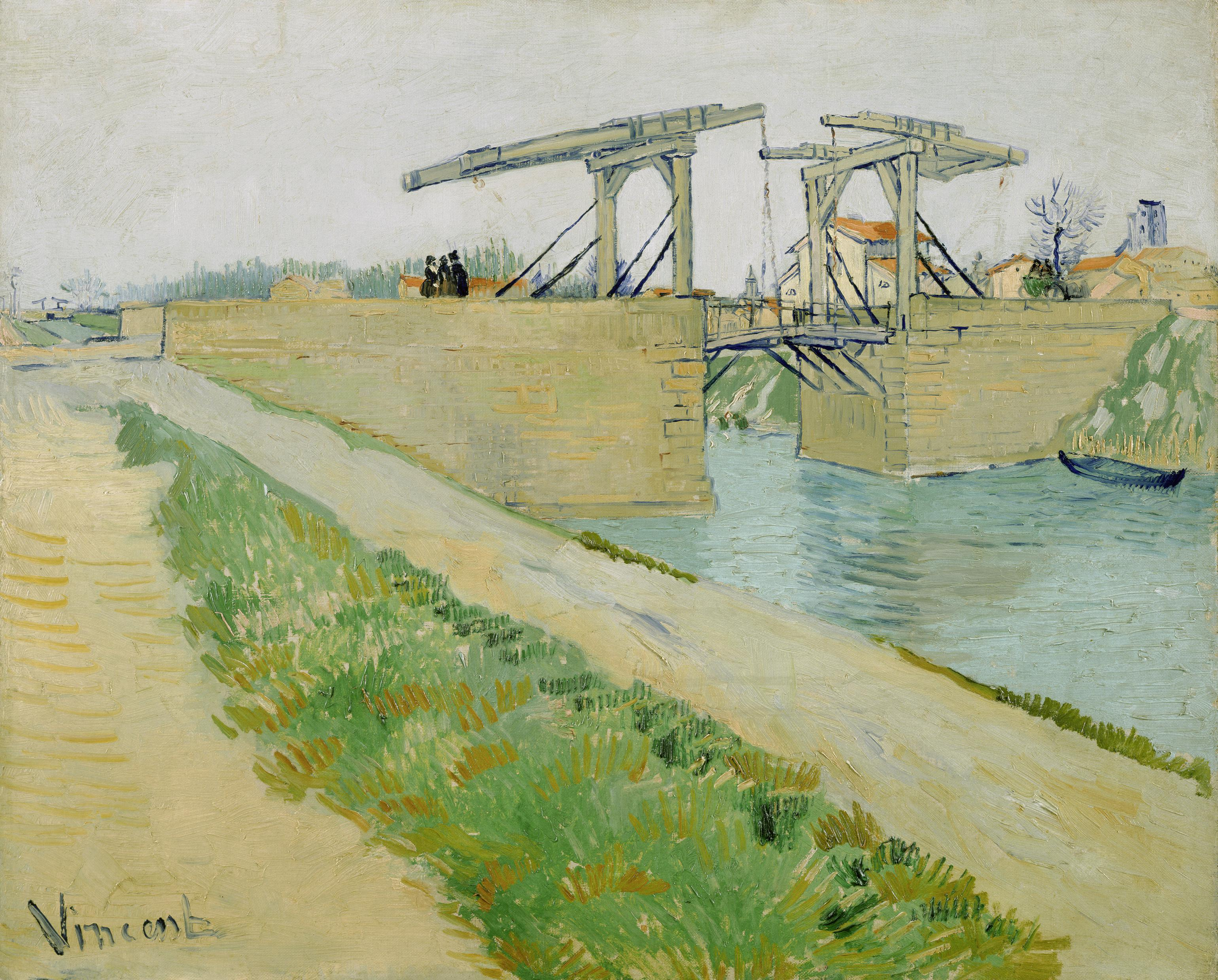 Painting by Vincent van Gogh, 1888